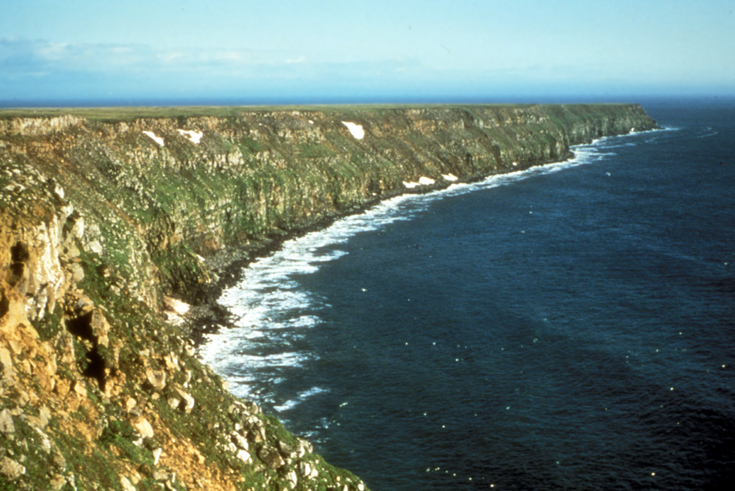 Nunivak Island's coastal Bering Sea cliffs. Nesting site for thousands of sea ducks and waterfowl on the refuge.